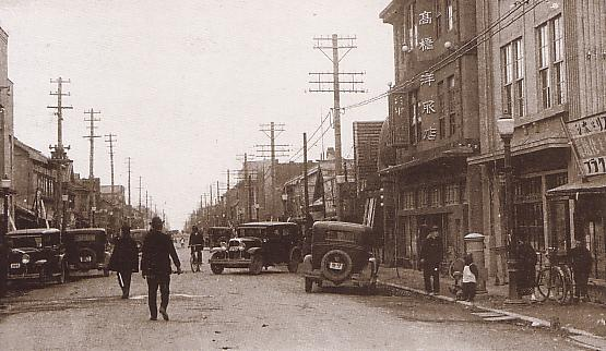 Nishiichijo-dori in Toyohara(Yuzhno-Sakhalinsk Южно-Сахалинск)